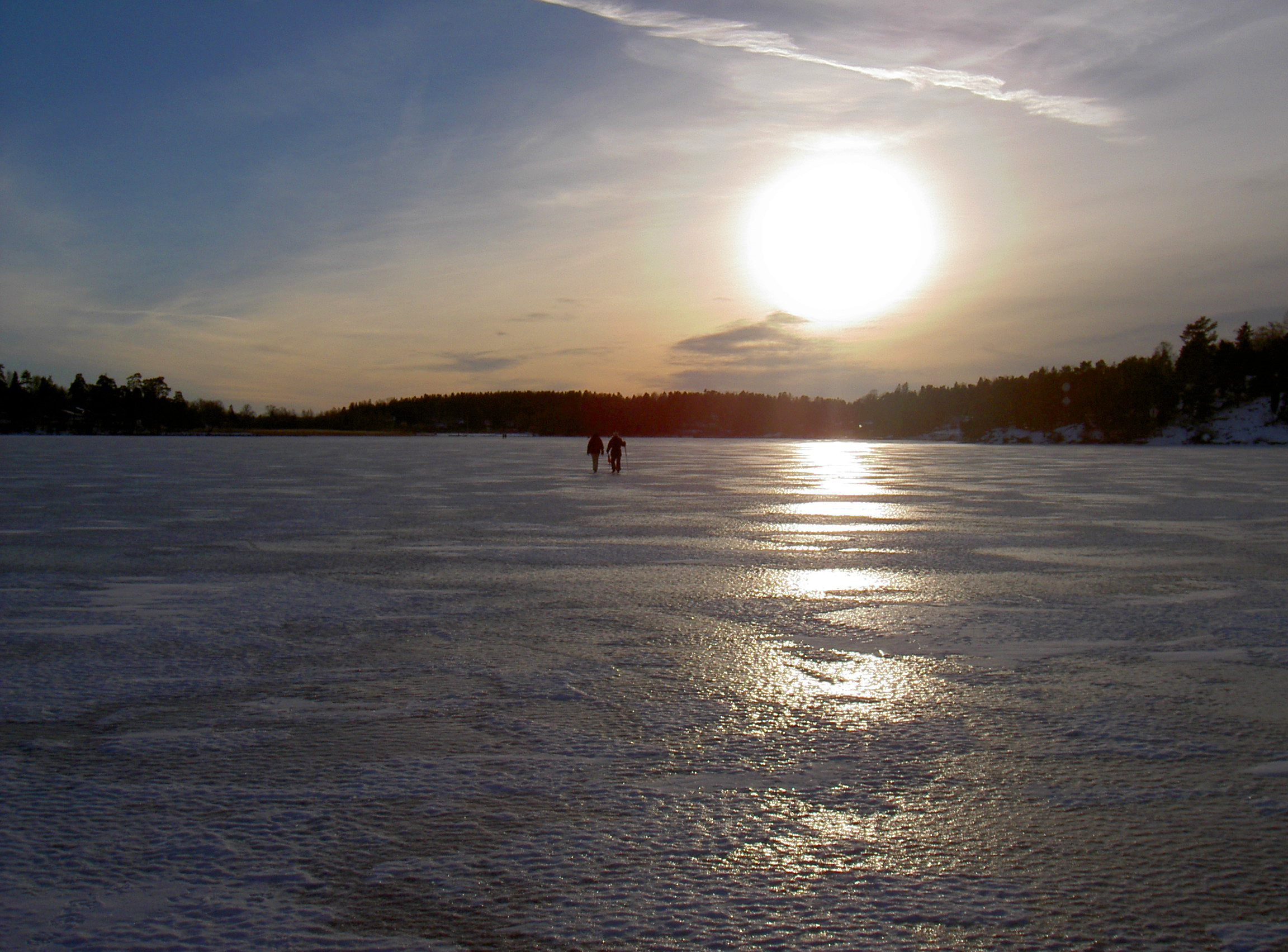 View of Mälbyviken, seen from the lighthouse outside the bay in Lake Mälaren